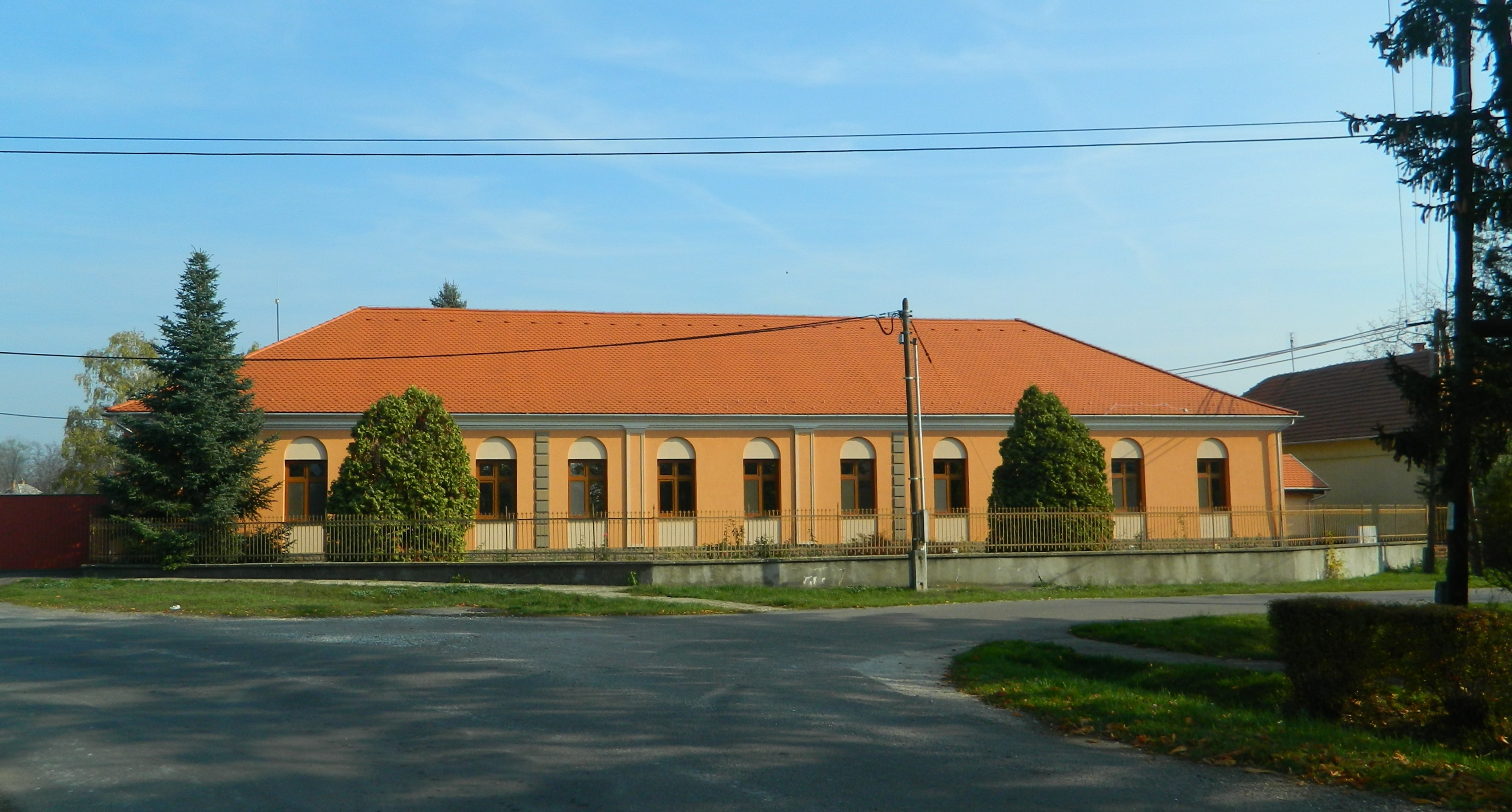 Hoffmannn mason in Mezőkeresztes